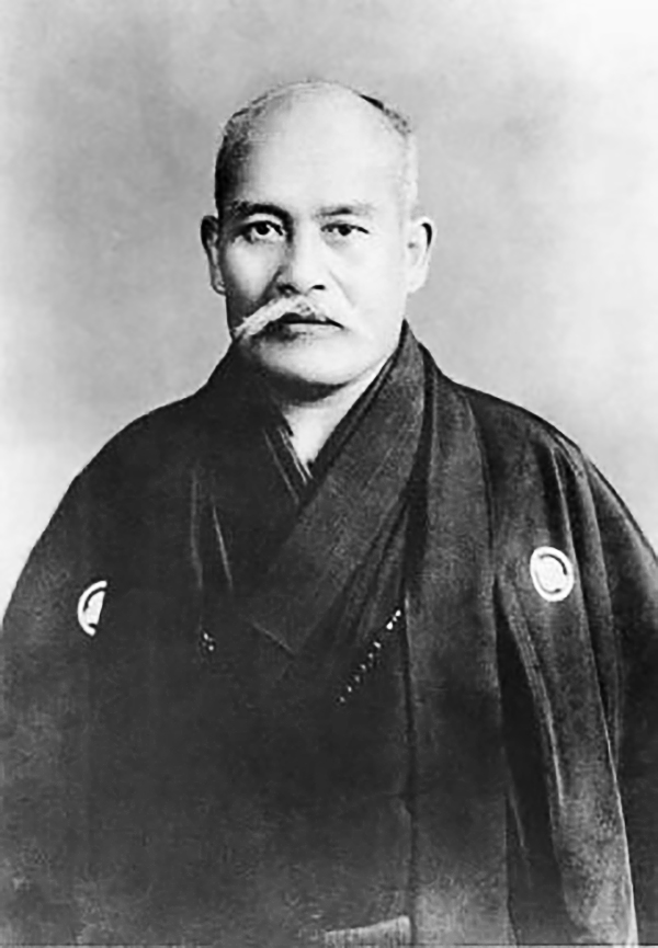 A portrait of Morihei Ueshiba in 1939